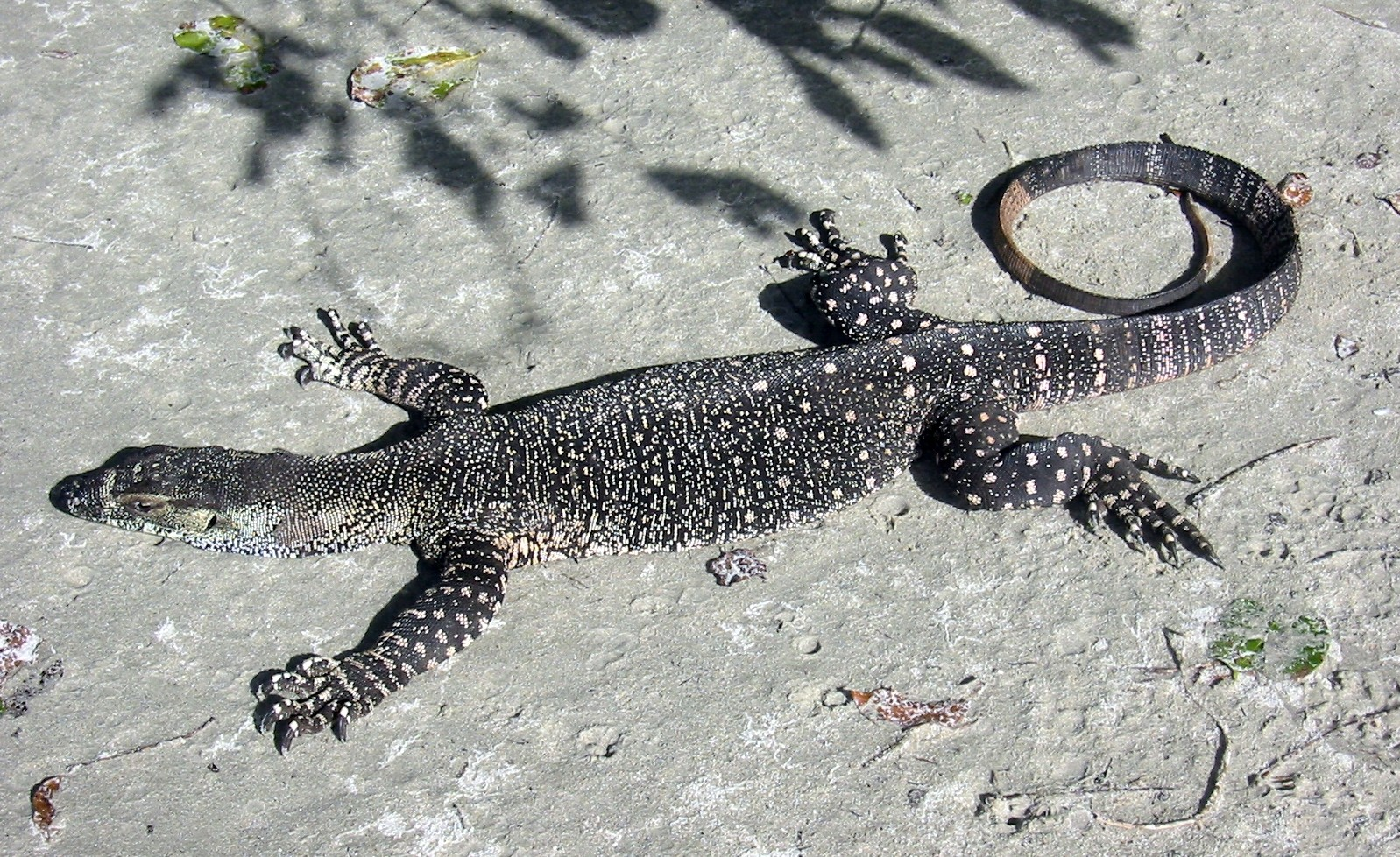 Common Goanna or Lace Monitor (Varanus varius), Queensland, Australia